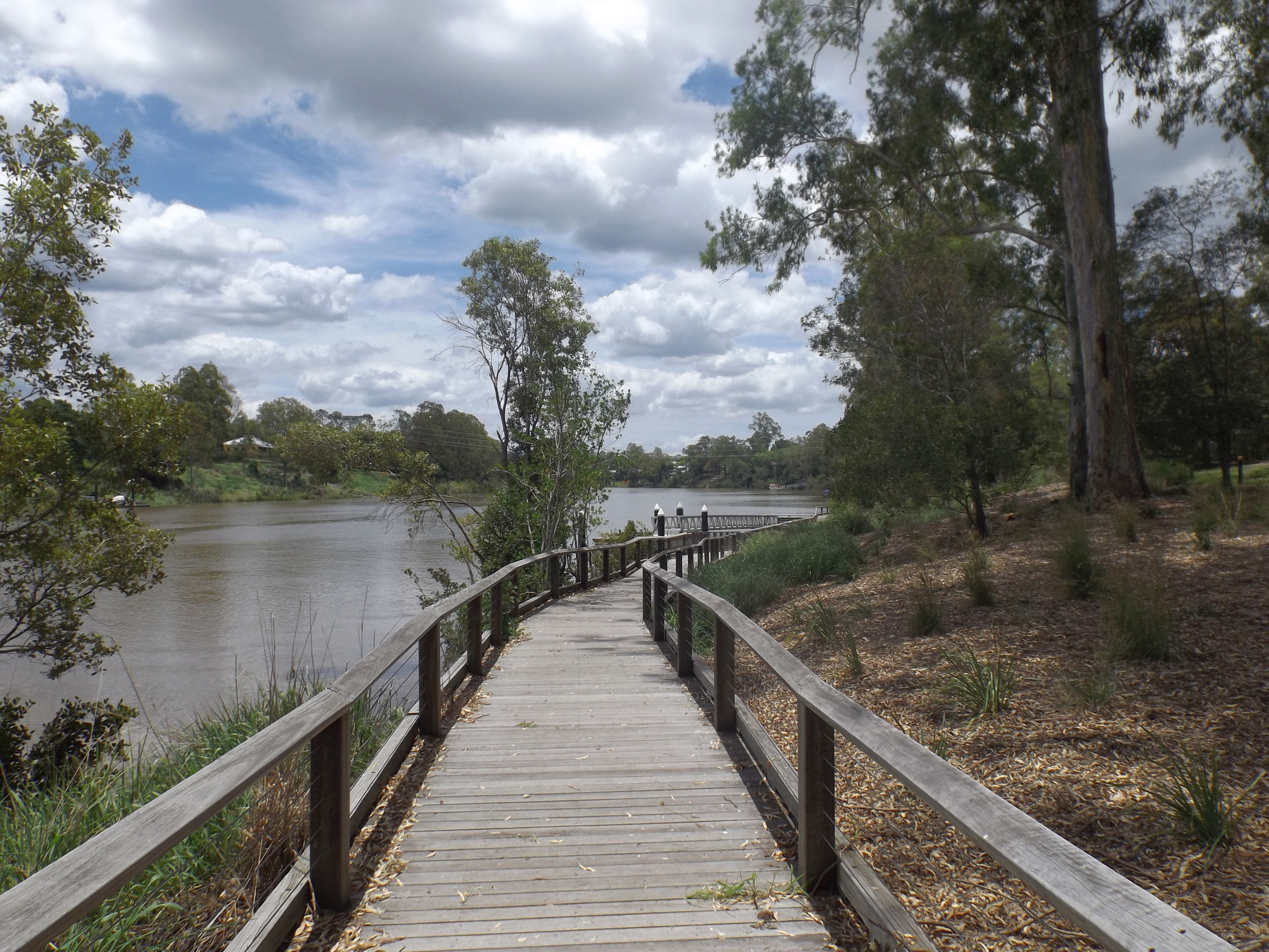 Photo of boardwalk along Brisbane River at Sherwood Arboretum in Sherwood, Brisbane, Queensland, Australia.